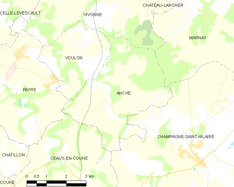 Map of French municipality Anché